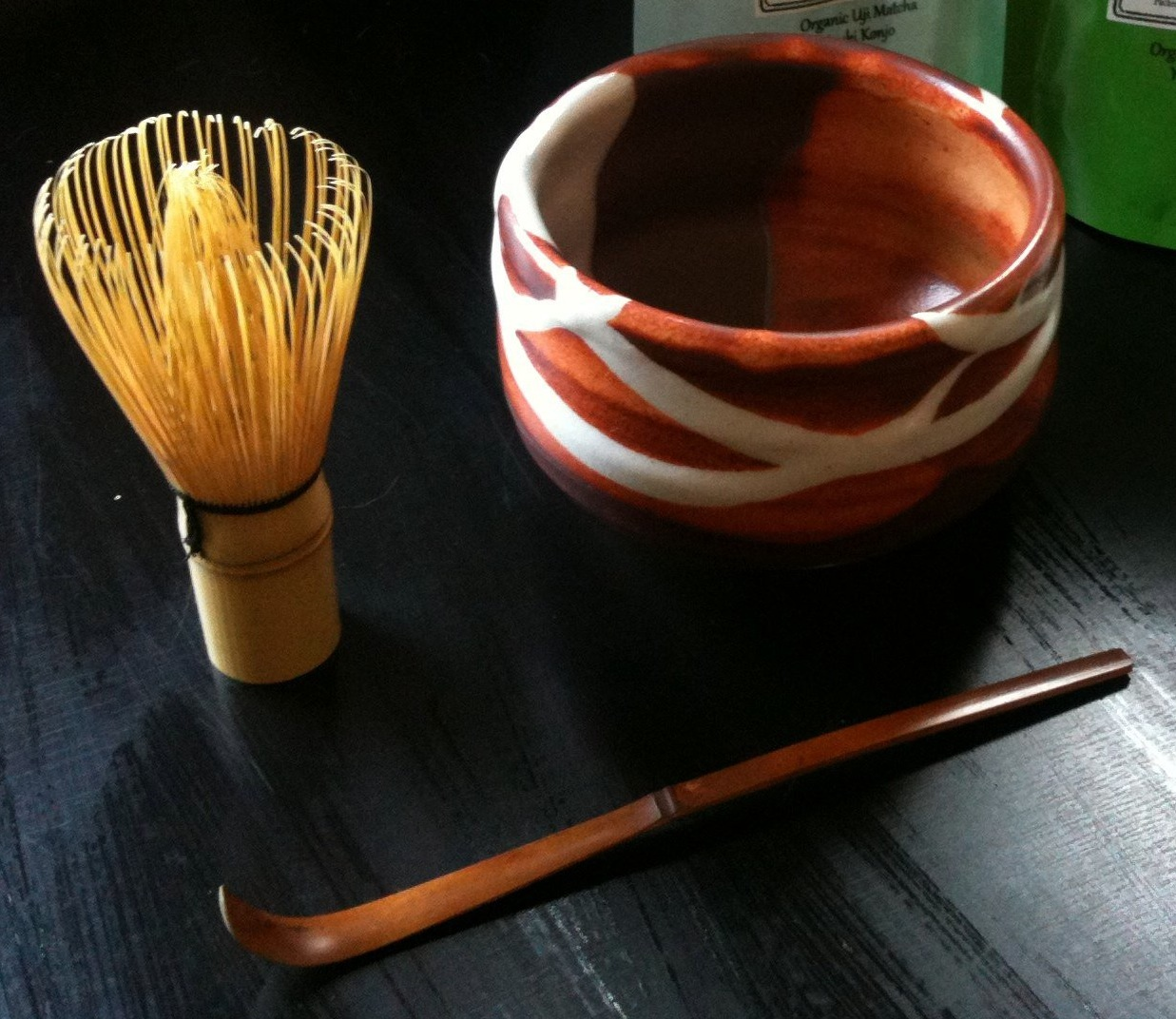 A simple three piece matcha set (and three sealed bags of matcha). Chashaku (spoon), chawan (bowl) and chasen (whisk).